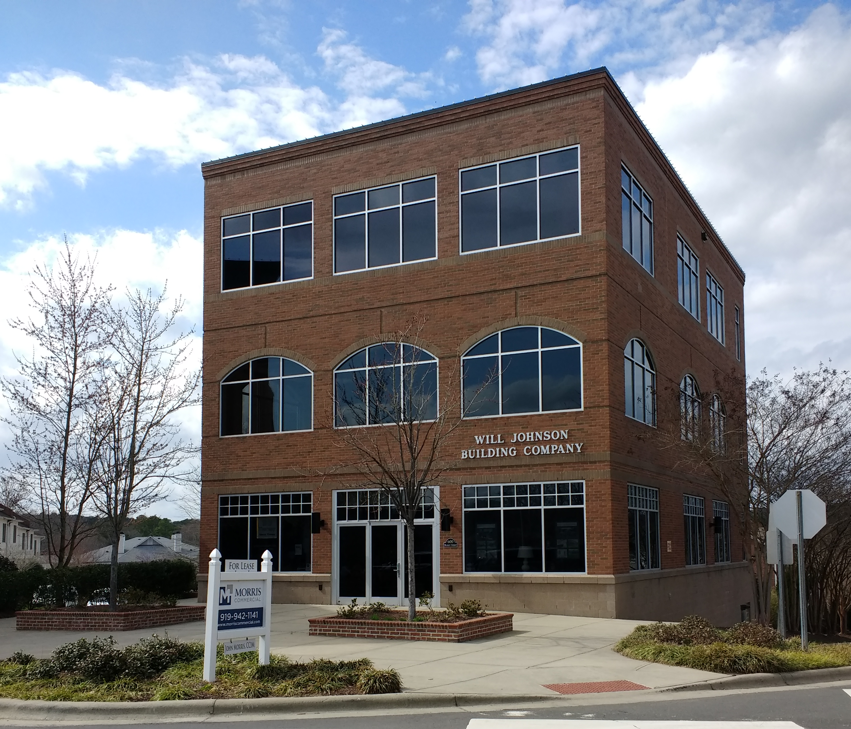 600 Market Street, Chapel Hill, North Carolina, United States. Located in the Southern Village neighborhood.